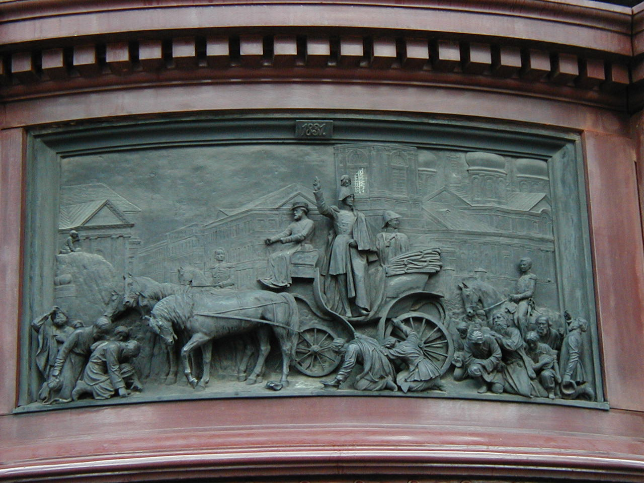 Monument to Nicholas I on St. Isaac Square, St. Petersburg, detail - Nikolay I pacifies cholera riot. Sculptor Ramazanov.